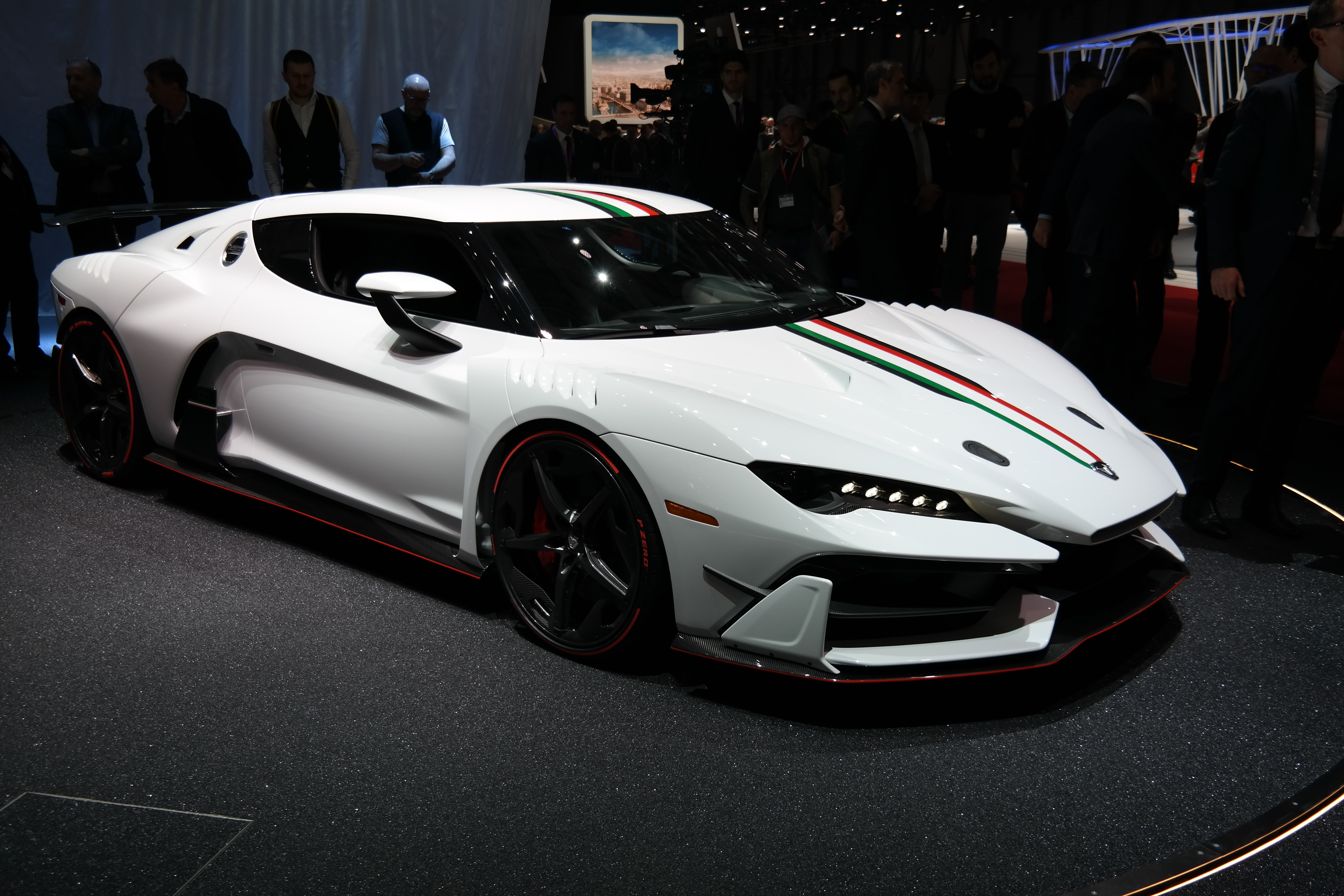 Geneva Motor Show 2017 (photo taken on the first press day)